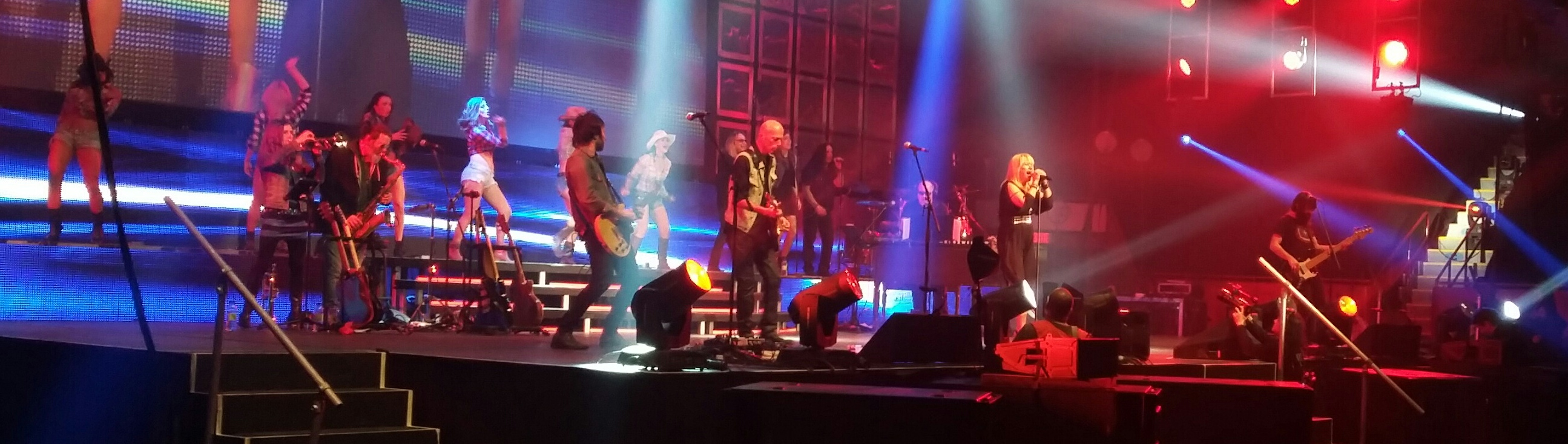 Lulu Hughes photographed in Montreal, Quebec, Canada at the Harley-Davidson Montreal show inside the Verdun Auditorium.